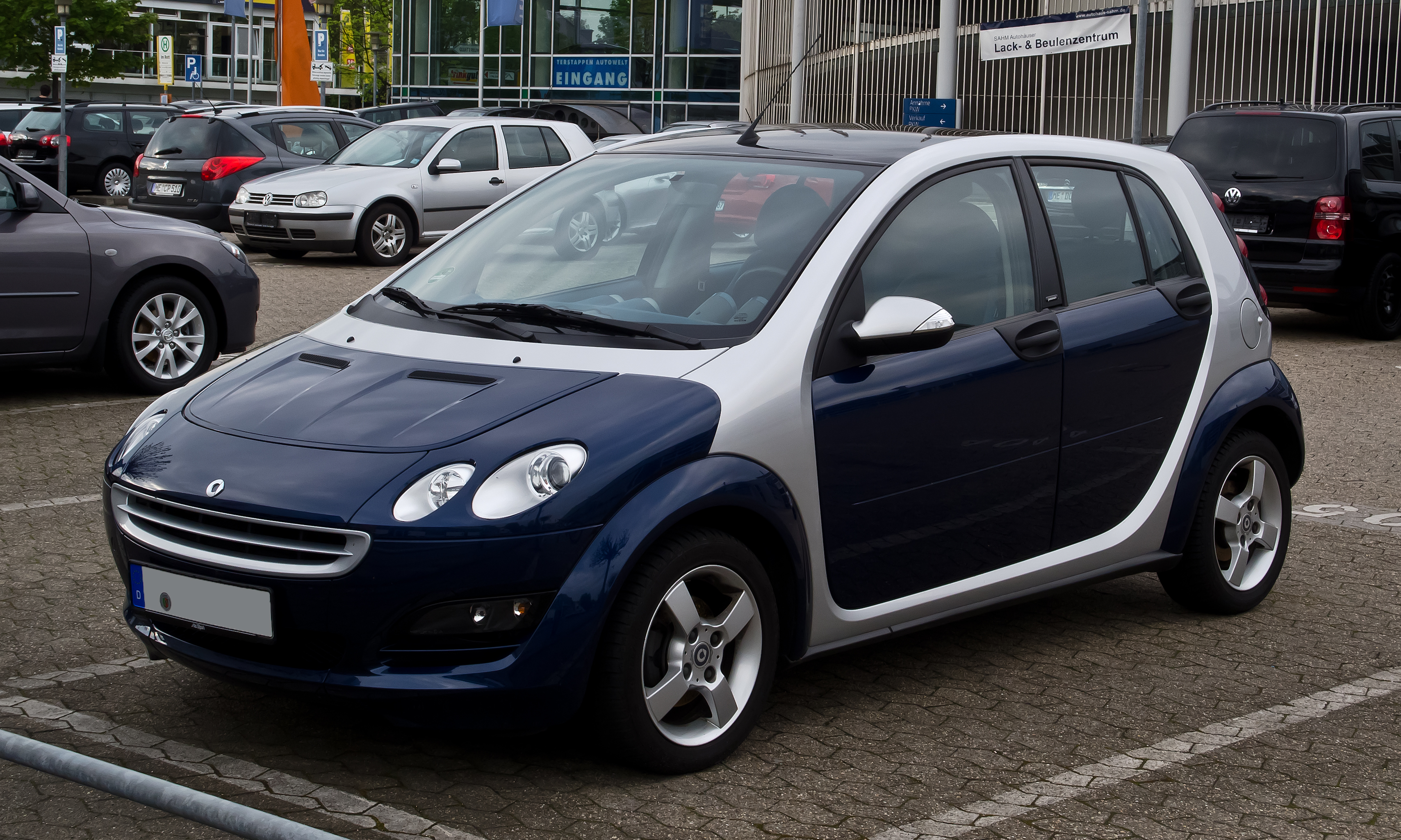 Smart Forfour 1.3 Passion (W 454)